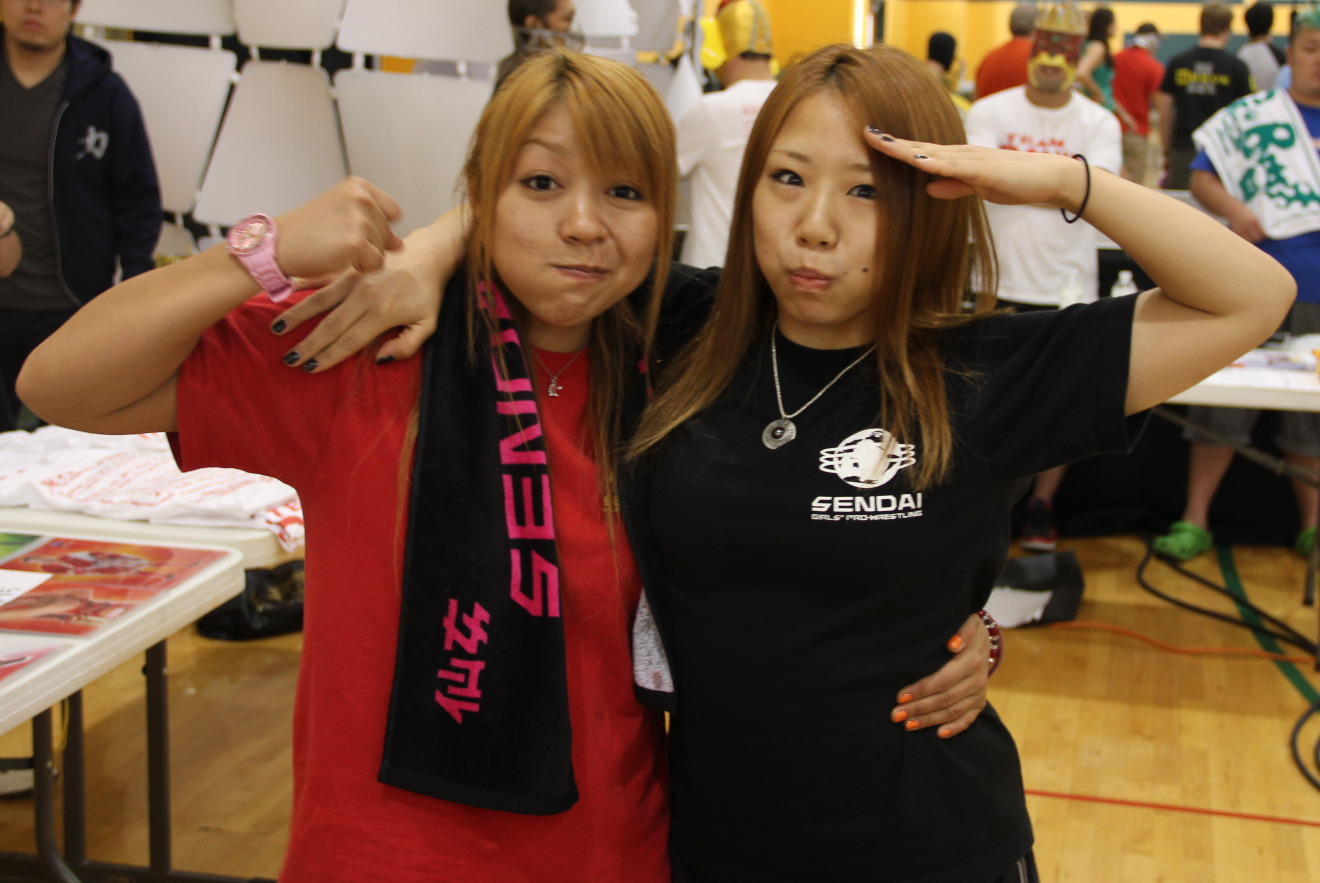 Professional wrestlers DASH Chisako and Sendai Sachiko at Chikara King of Trios 2012 Fan Conclave.